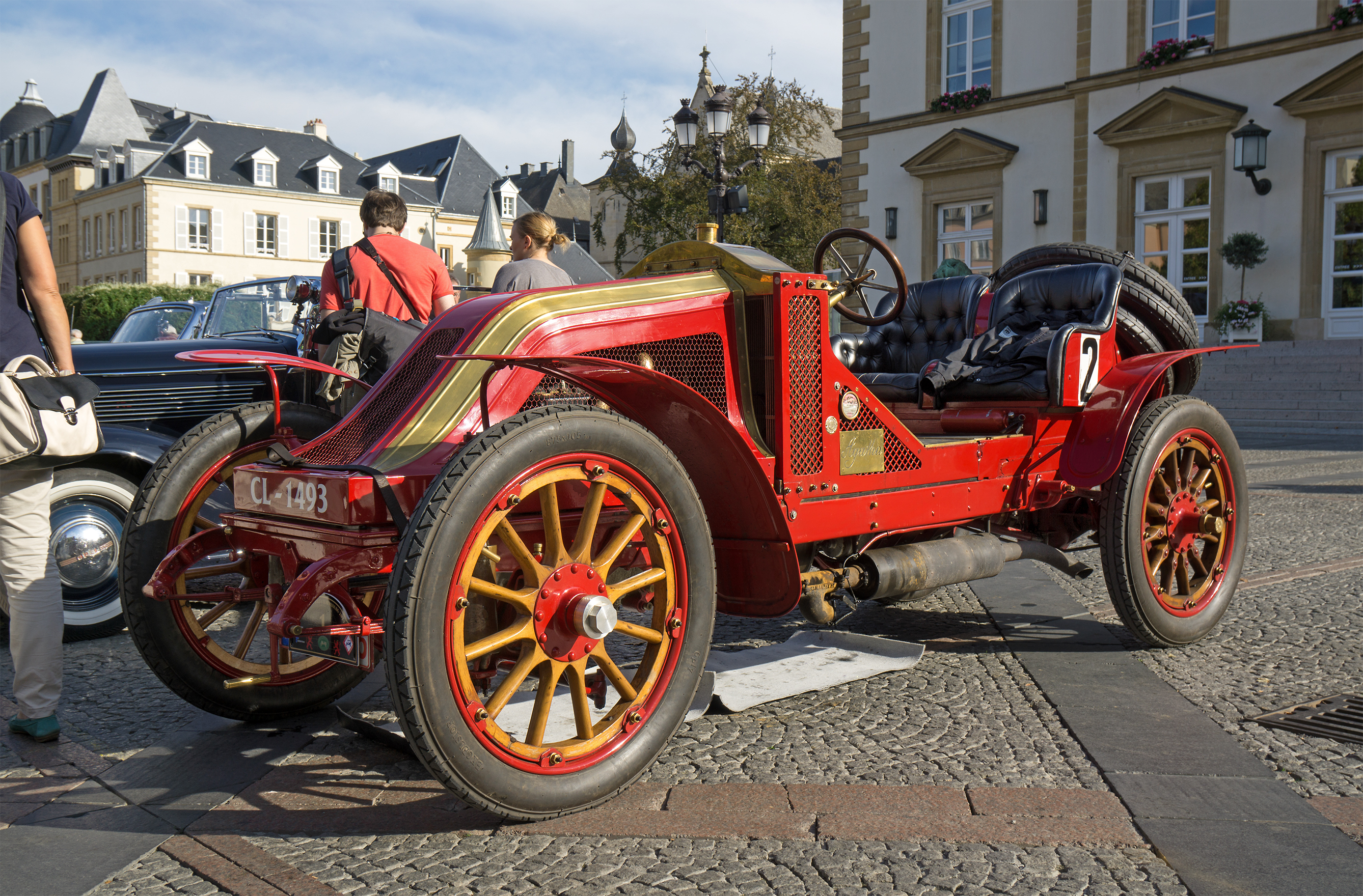 Renault Type AI from 1907; FIVA World Rally Luxembourg 2014